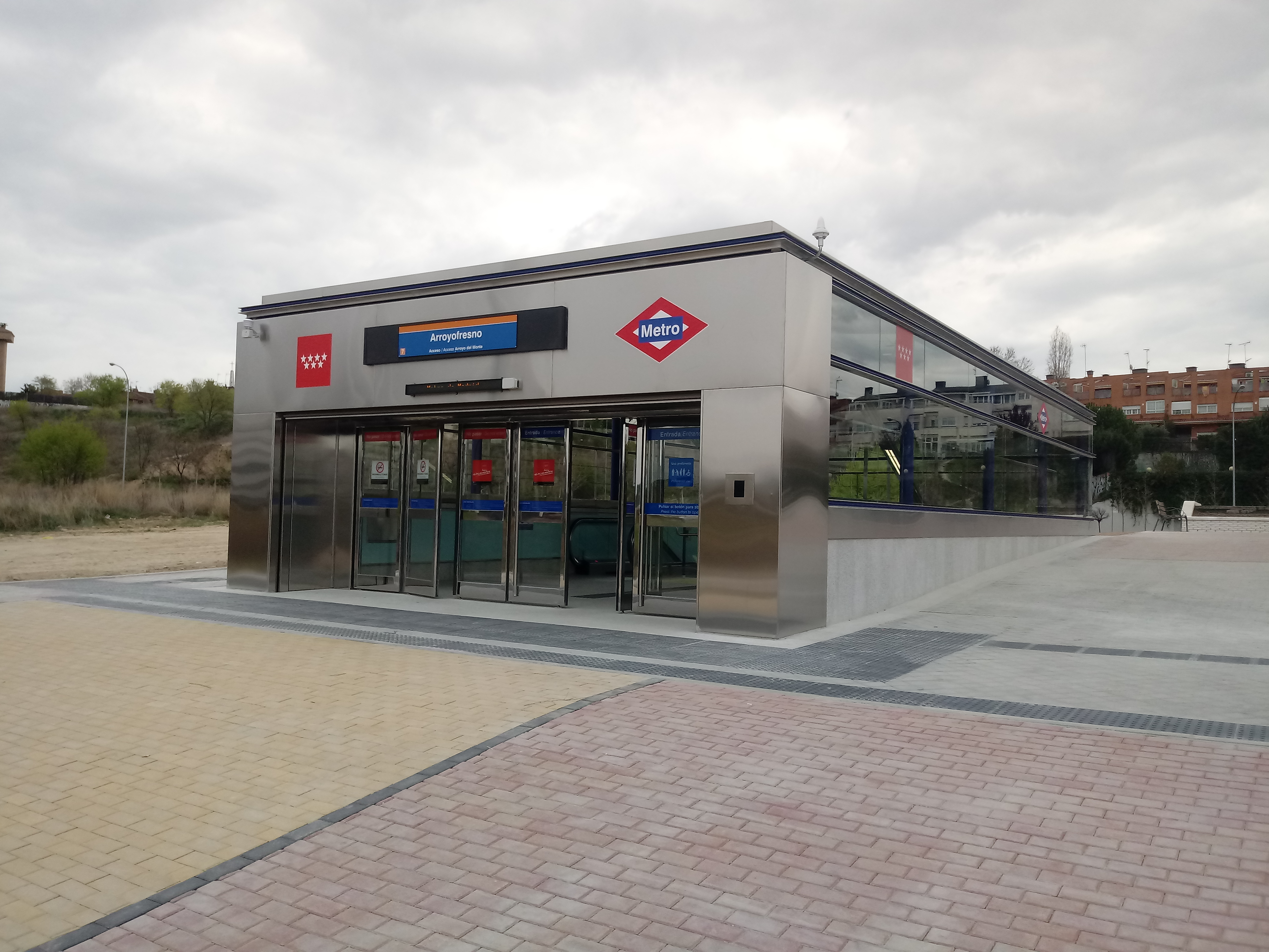 Entrance to Arroyofresno station, in line 7 of the Madrid metro